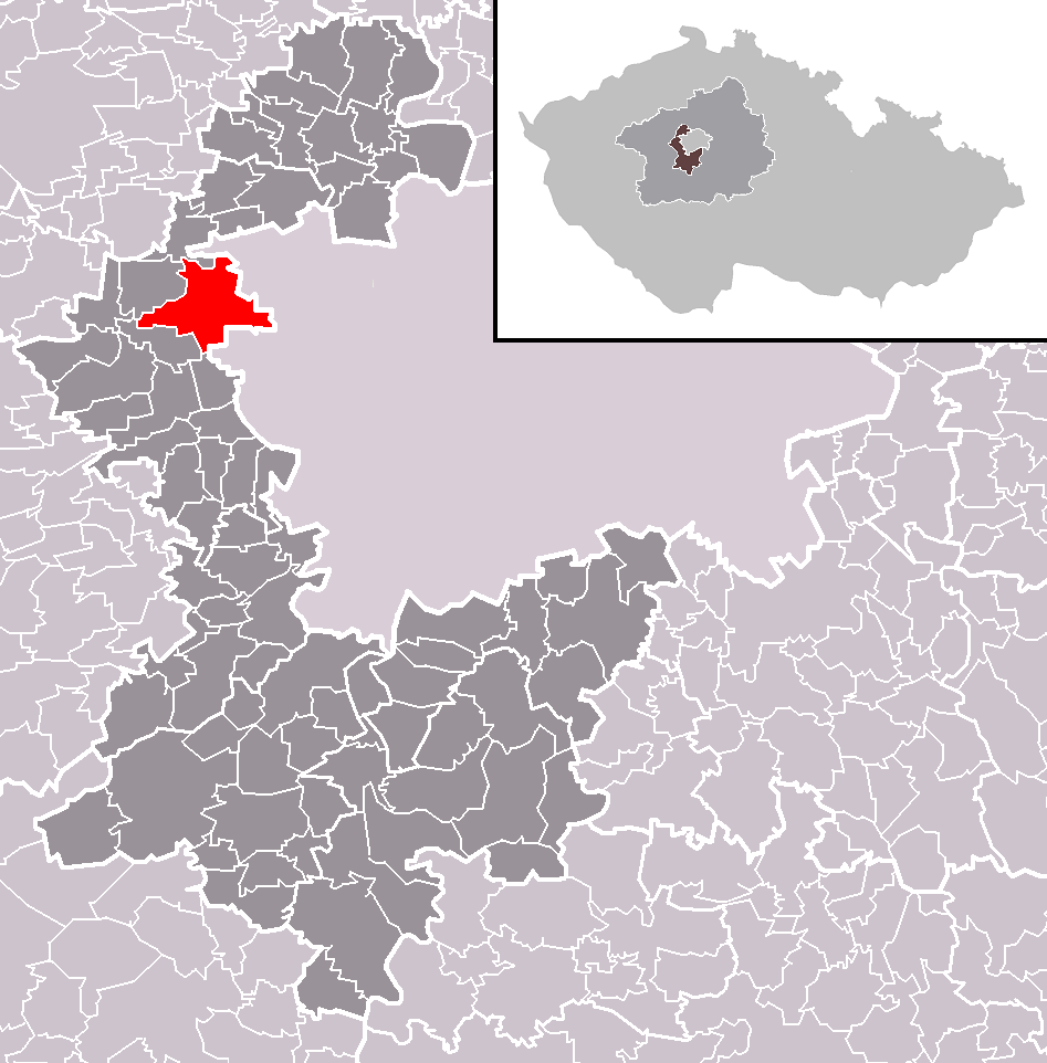 Location of Hostivice town within Prague-West District and administrative area of Černošice as a Municipality with Extended Competence.